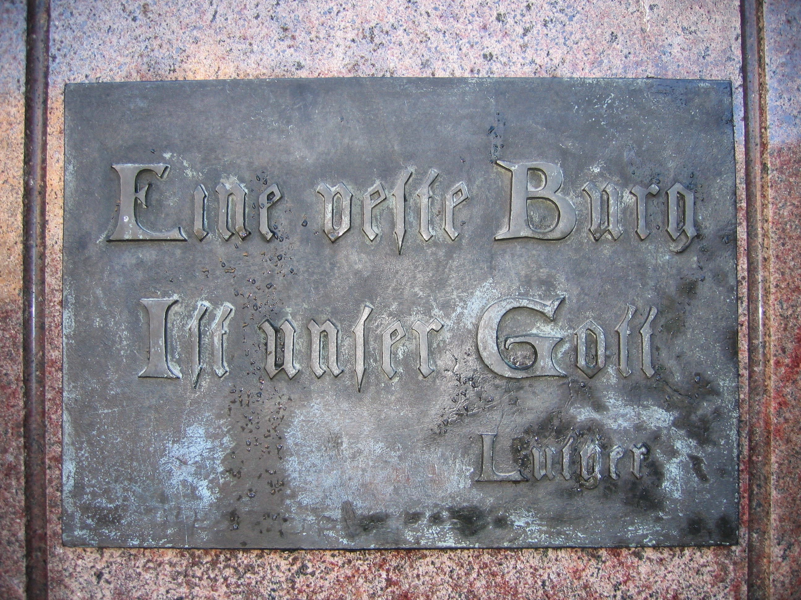 Lutherstadt Wittenberg, Germany